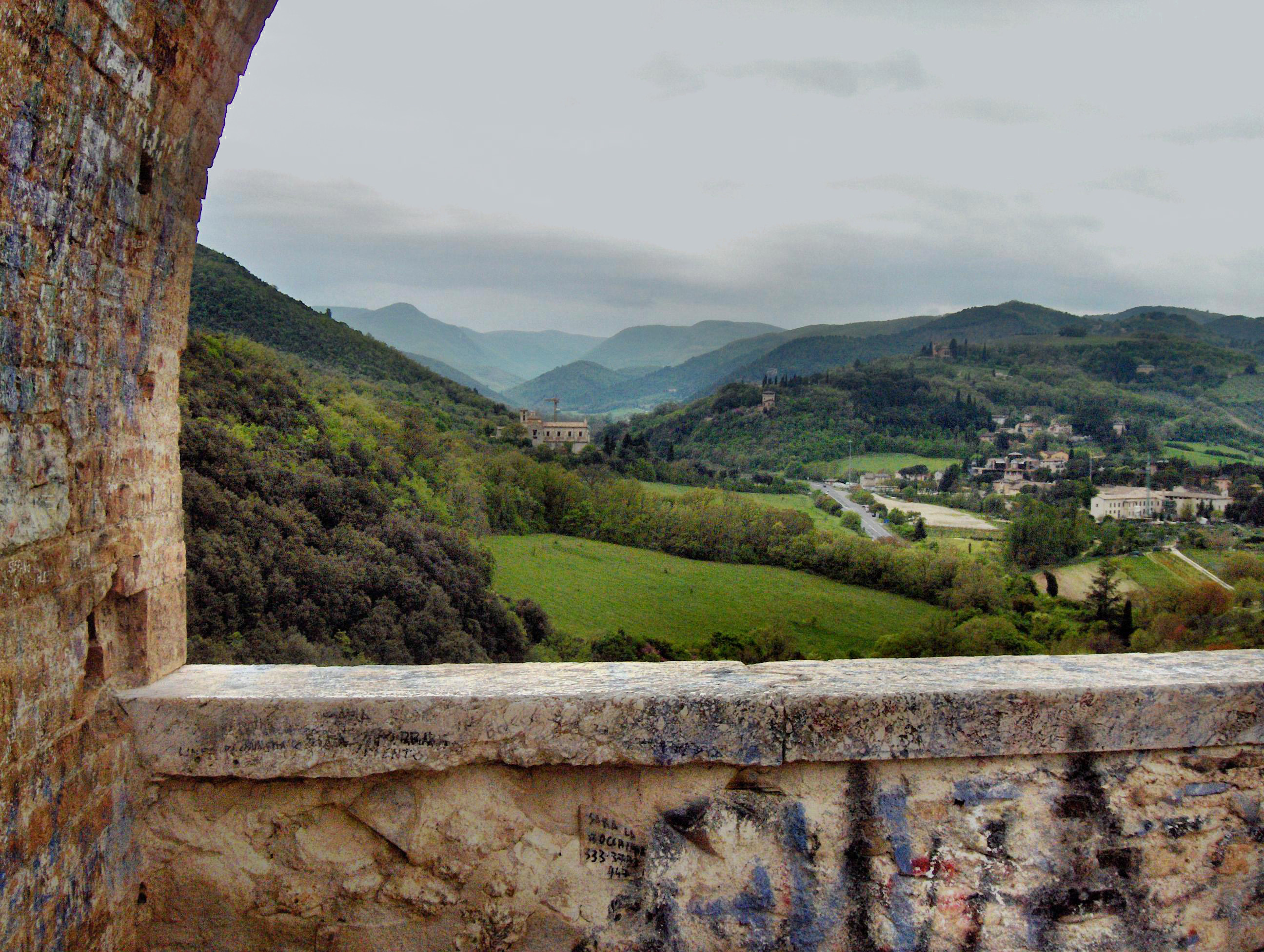 View on the valley of Spoleto from the Ponte delle Torri, Spoleto, Italy